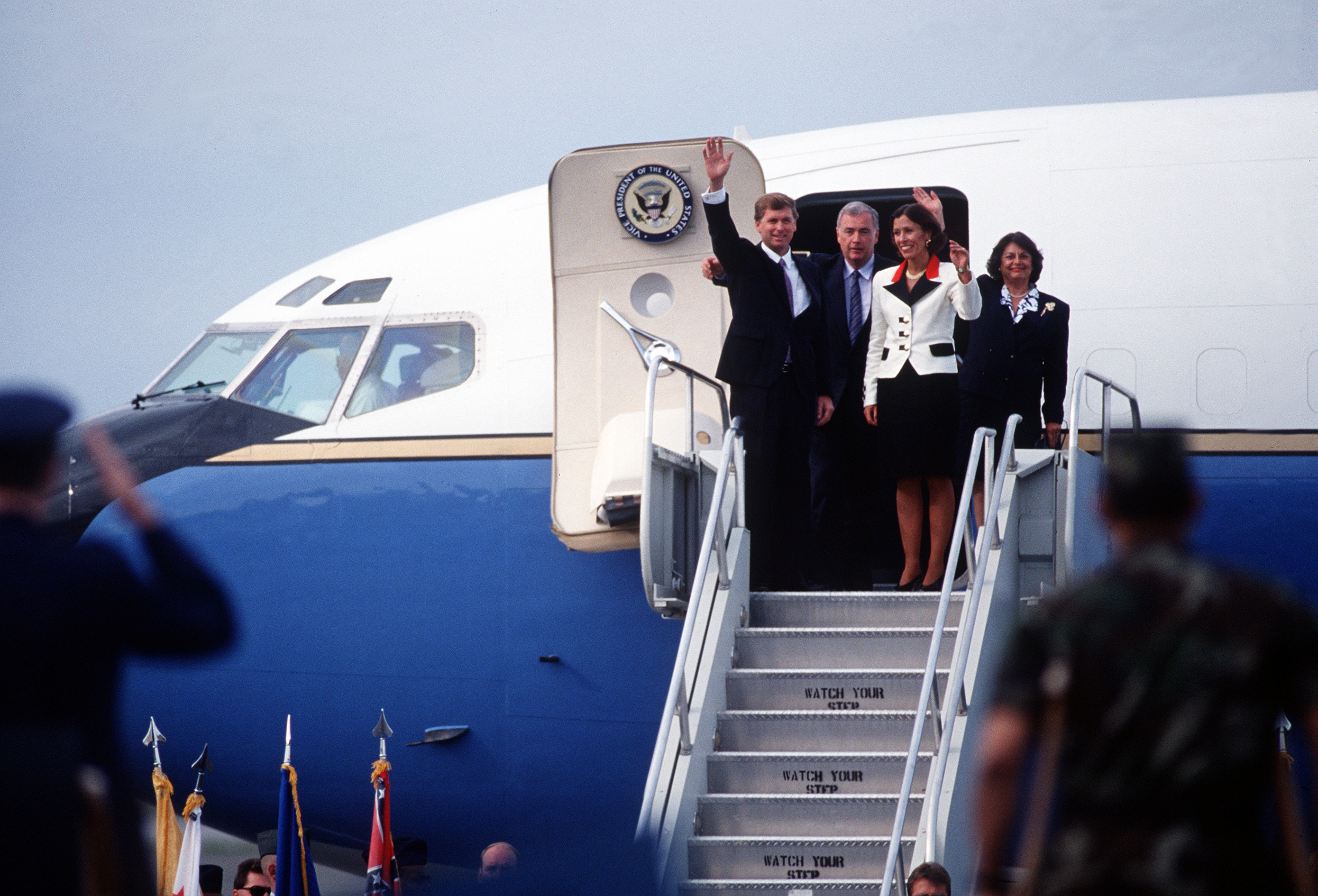 Vice President J. Danforth Quayle and Marilyn Quayle wave to the crowd upon their arrival on base. The vice president is at Eielson to express his appreciation to airmen who served in the Persian Gulf area during Operation Desert Storm. Standing behind the Quayles are Alaskan Senator Frank H. Murkowski and Mrs. Murkowski, 5/18/1991